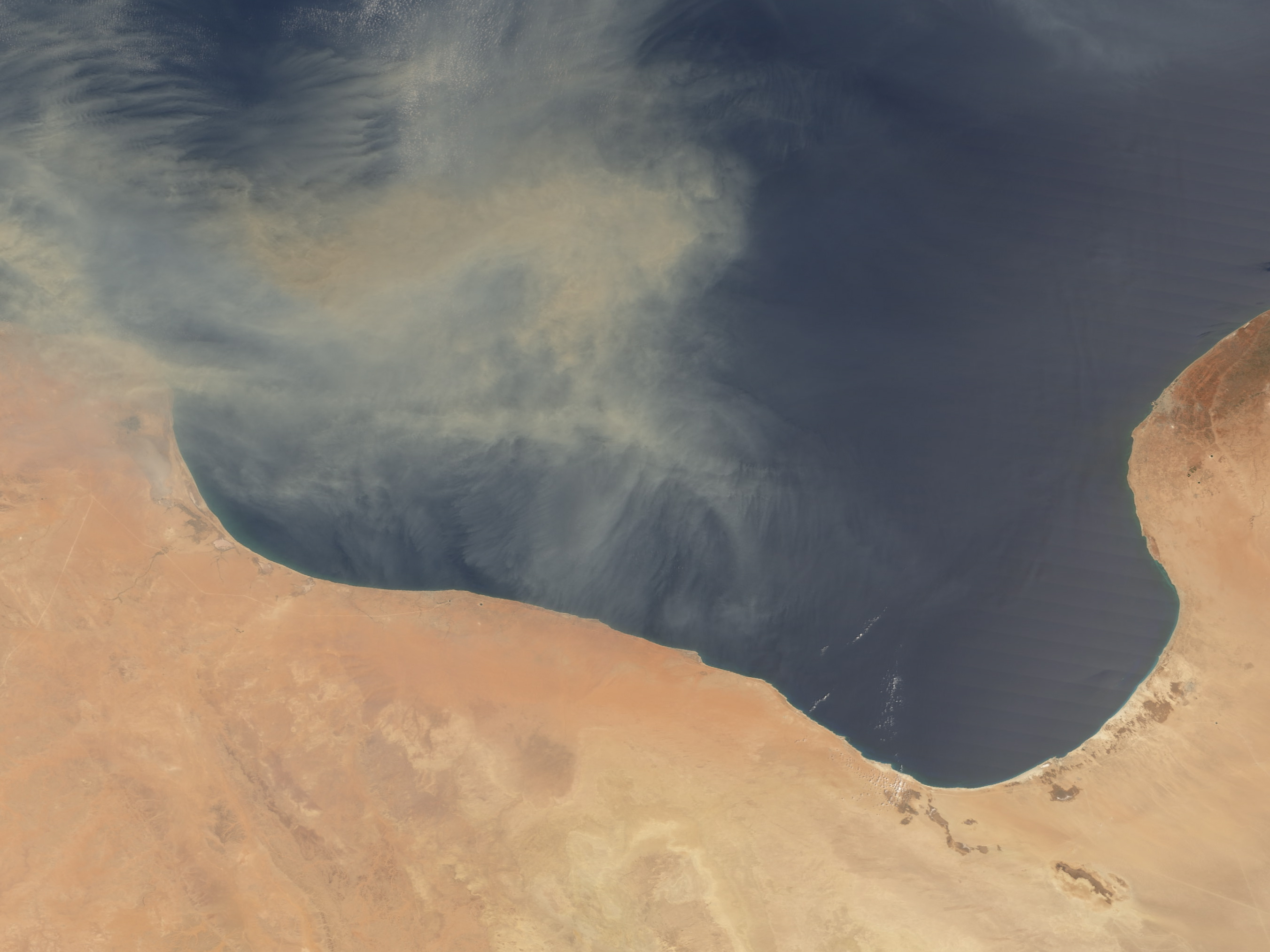 Deadly wildfires in southern Greece wafted thick clouds of smoke over the Mediterranean Sea in late August 2007. This image of Greece was captured by the Moderate Resolution Imaging Spectroradiometer (MODIS) on NASA’s Terra satellite on August 26, and places where MODIS detected actively burning fires are outlined in red. A line of fires stretches along the western coast of Greece’s Peloponnesus Peninsula. To the northeast, a large fire is casting a plume of smoke over Athens. With its brownish tinge, the smoke pooled over the Gulf of Sirte could easily be mistaken for dust from the deserts of Libya. Dust storms often travel the other direction across the Mediterranean: from Africa to Greece. The large image provided above has a spatial resolution (level of detail) of 250 meters per pixel. The MODIS Rapid Response Team provides twice-daily images of the region in additional resolutions and formats. More recent images of the area (August 28) show that the fires were still burning, but winds appeared to be calmer. Calmer winds and partly cloudy skies may have provided a brief break for firefighters.